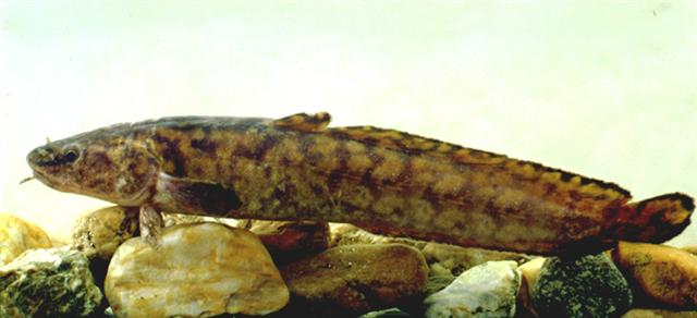 Lota lota photographed in Tiszafüred, river Tisza, Hungary.